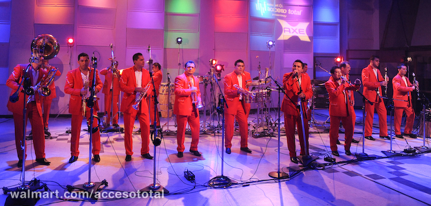 Mexican ensemble La Arrolladora Banda El Limón, 2012.